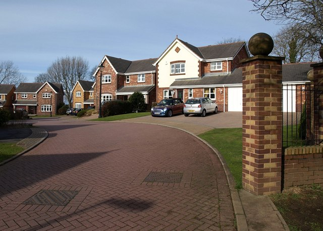 Albion Drive, Plymouth A rather exclusive little estate of detached houses at the end of a drive off Beacon Park Road, with a footpath (to the right of the gatepost) connecting through to Llantillio Drive past the Beacon Down Sports Ground.